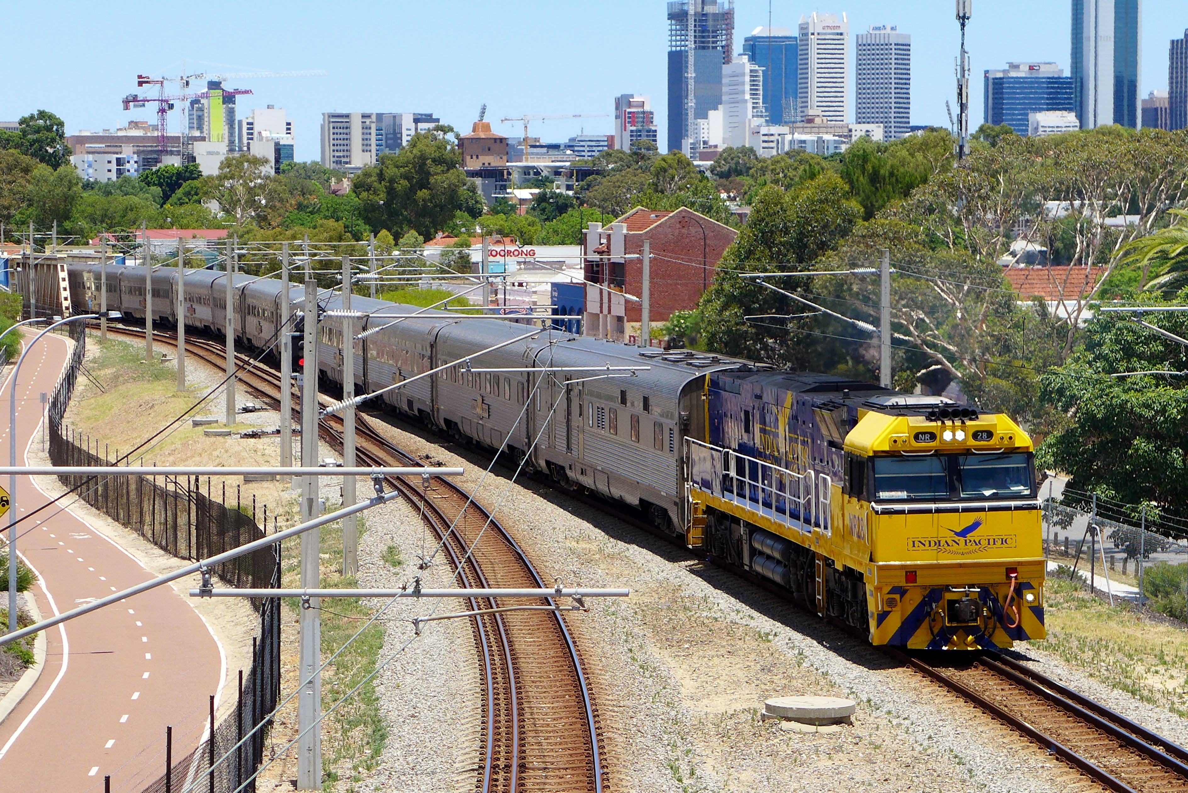 With the Perth CBD skyline in the background, NR28 is struggling up the dual gauge Mt Lawley incline as it hauls a seemingly well patronised eastbound Indian Pacific out of East Perth Terminal (not visible in the picture), at the start of its long transcontinental journey to Sydney via Adelaide, Australia.